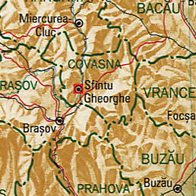 Map of Sfântu Gheorghe Municipality, Romania.